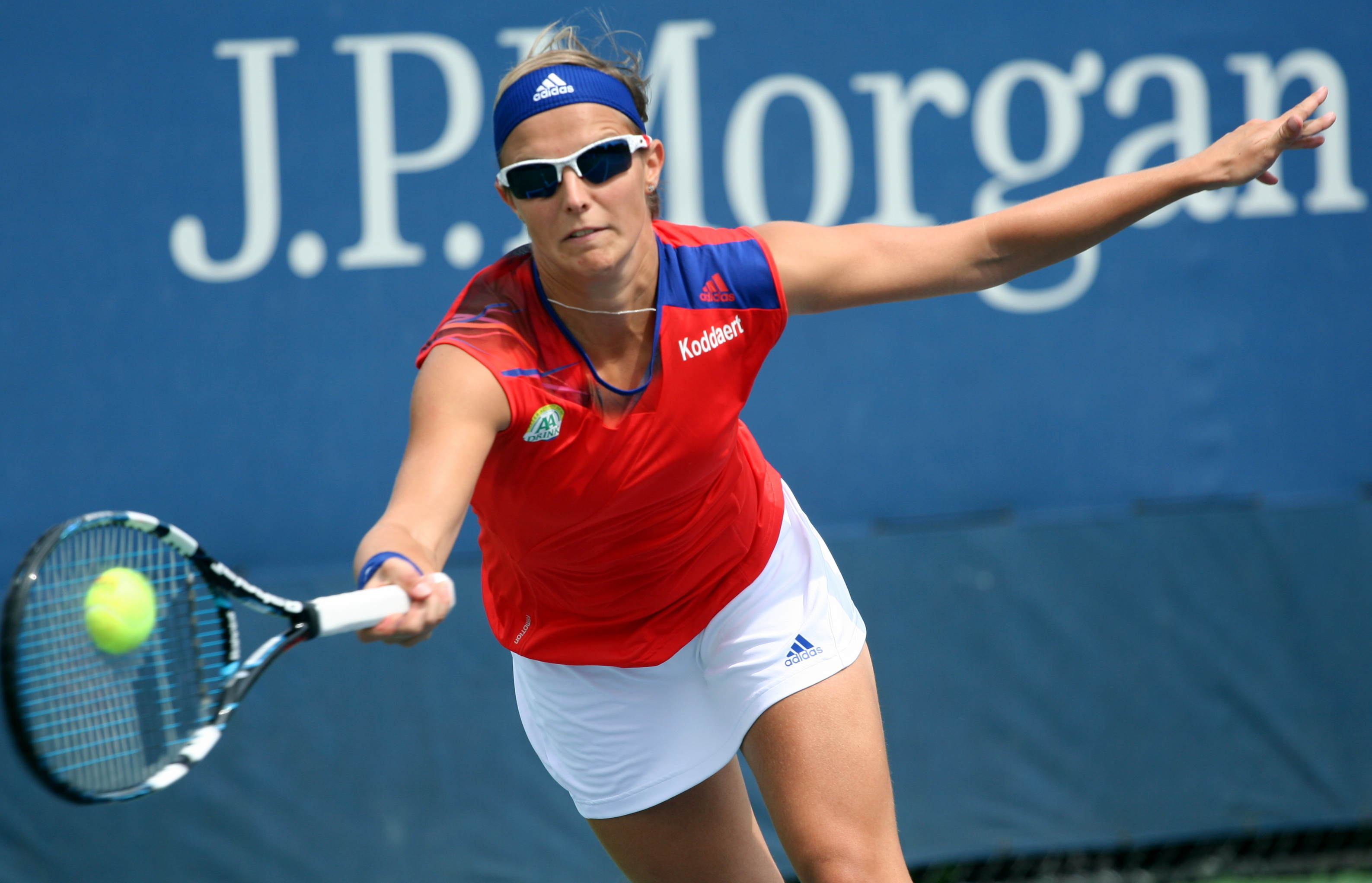 Friday, August 30